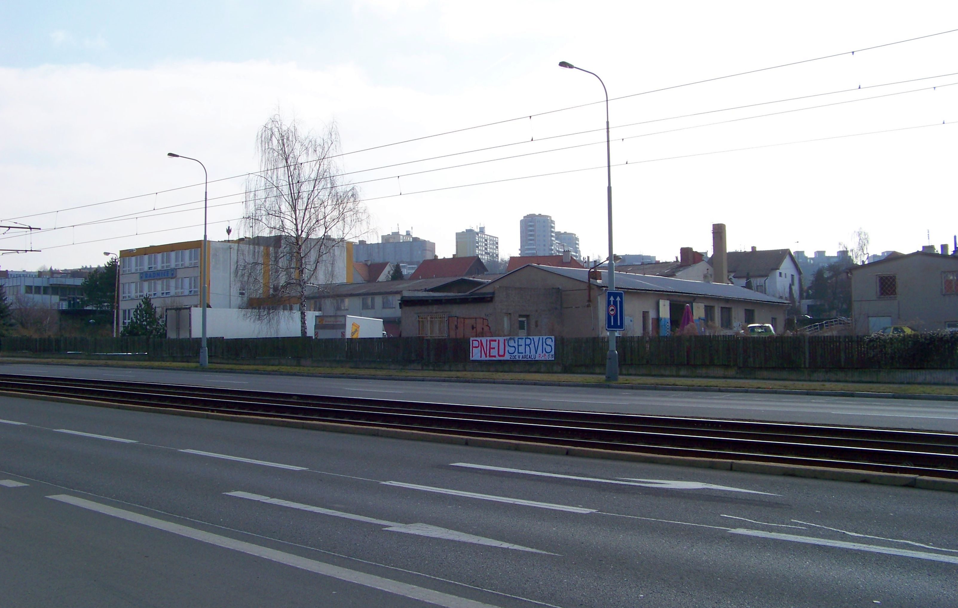 Prague-Modřany, Czech Republic. Generála Šišky street.